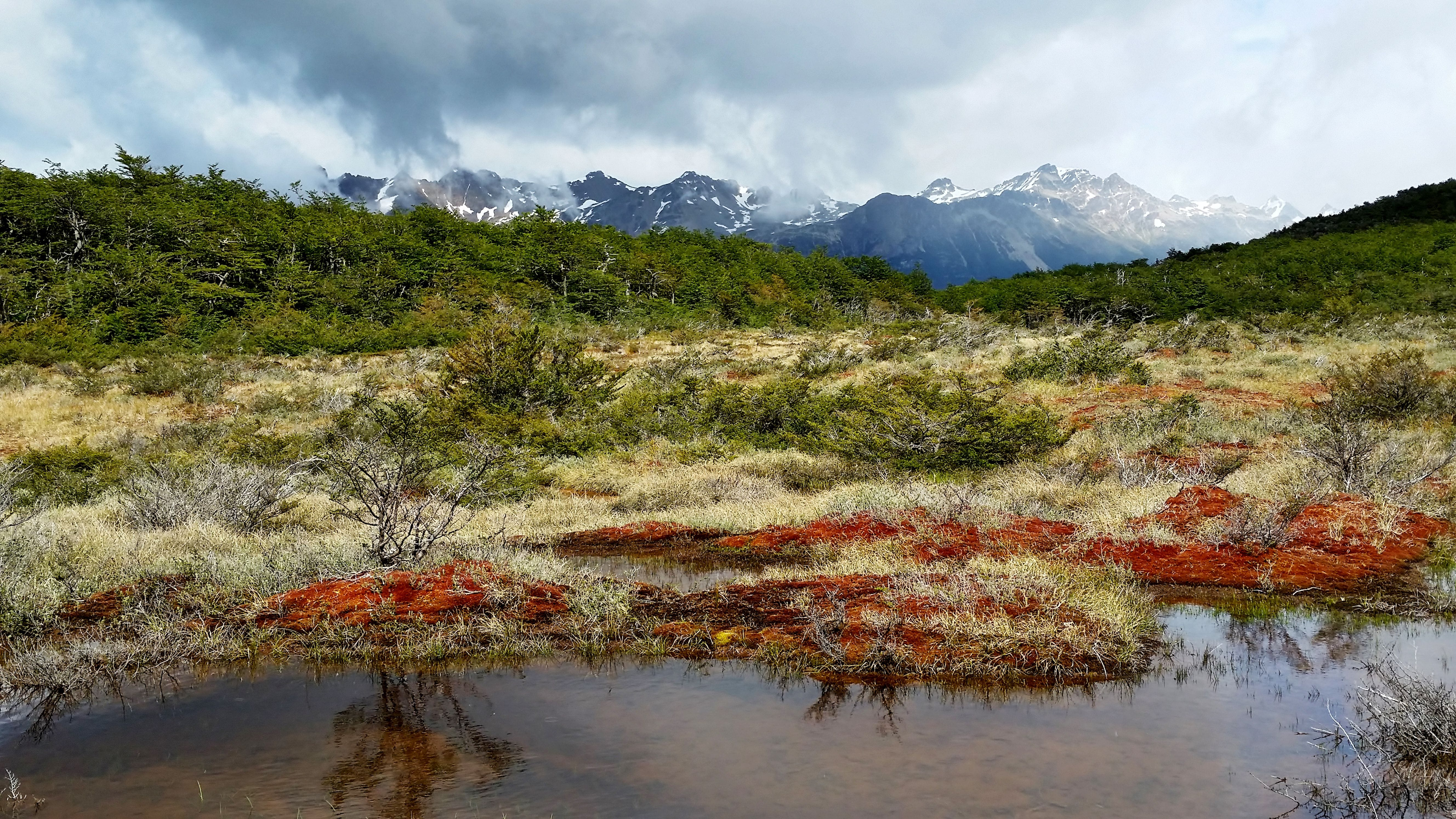 Hiking to Laguna Esmeralda, Tierra del Fuego, Argentina